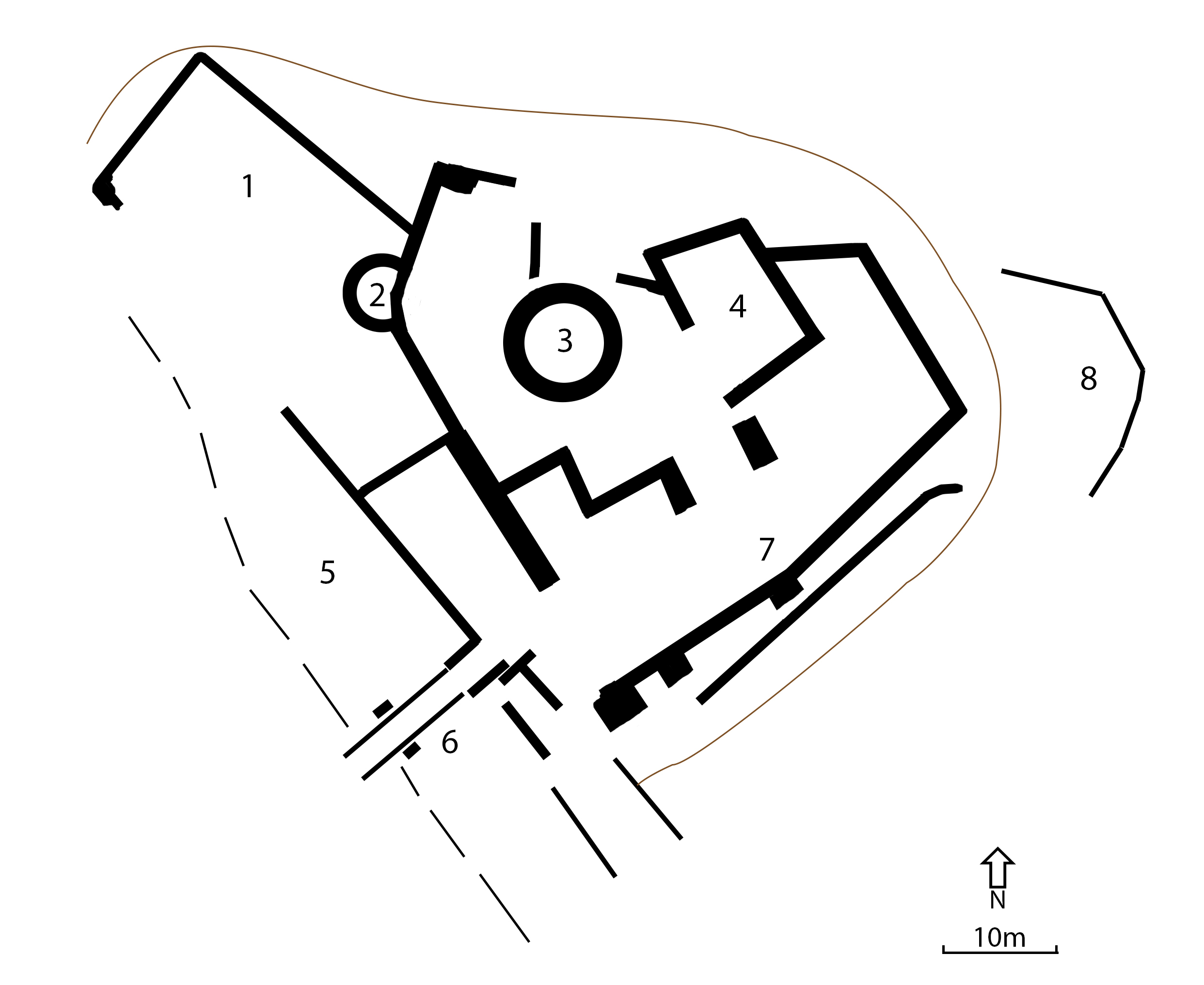 Ground plan of castle Fürstenberg